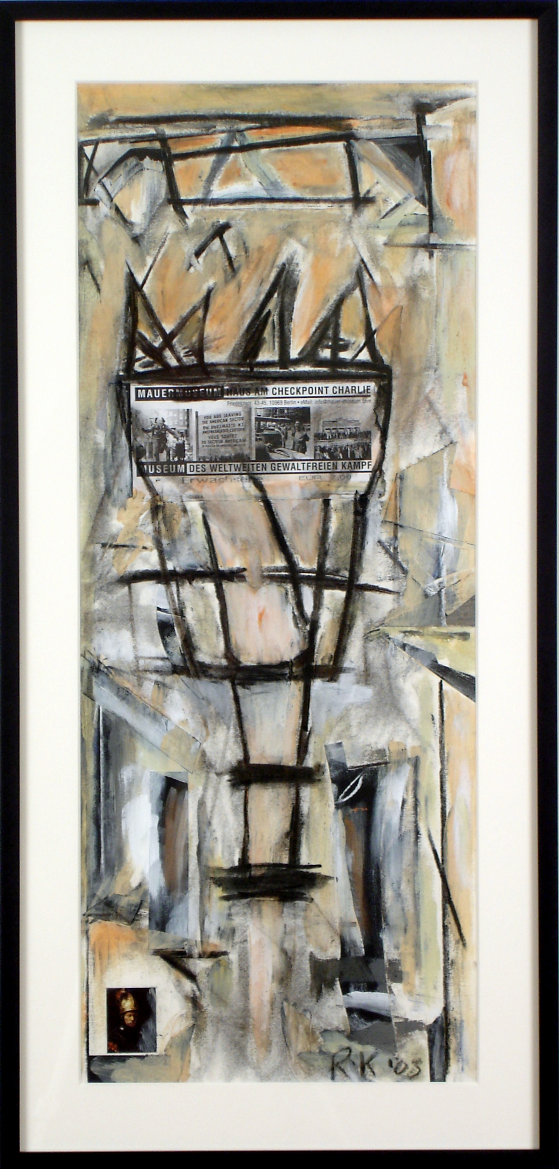 "Berlin Triptych" detail: Checkpoint Charlie — by Robert Kehlmann (2003). Mixed media on board.